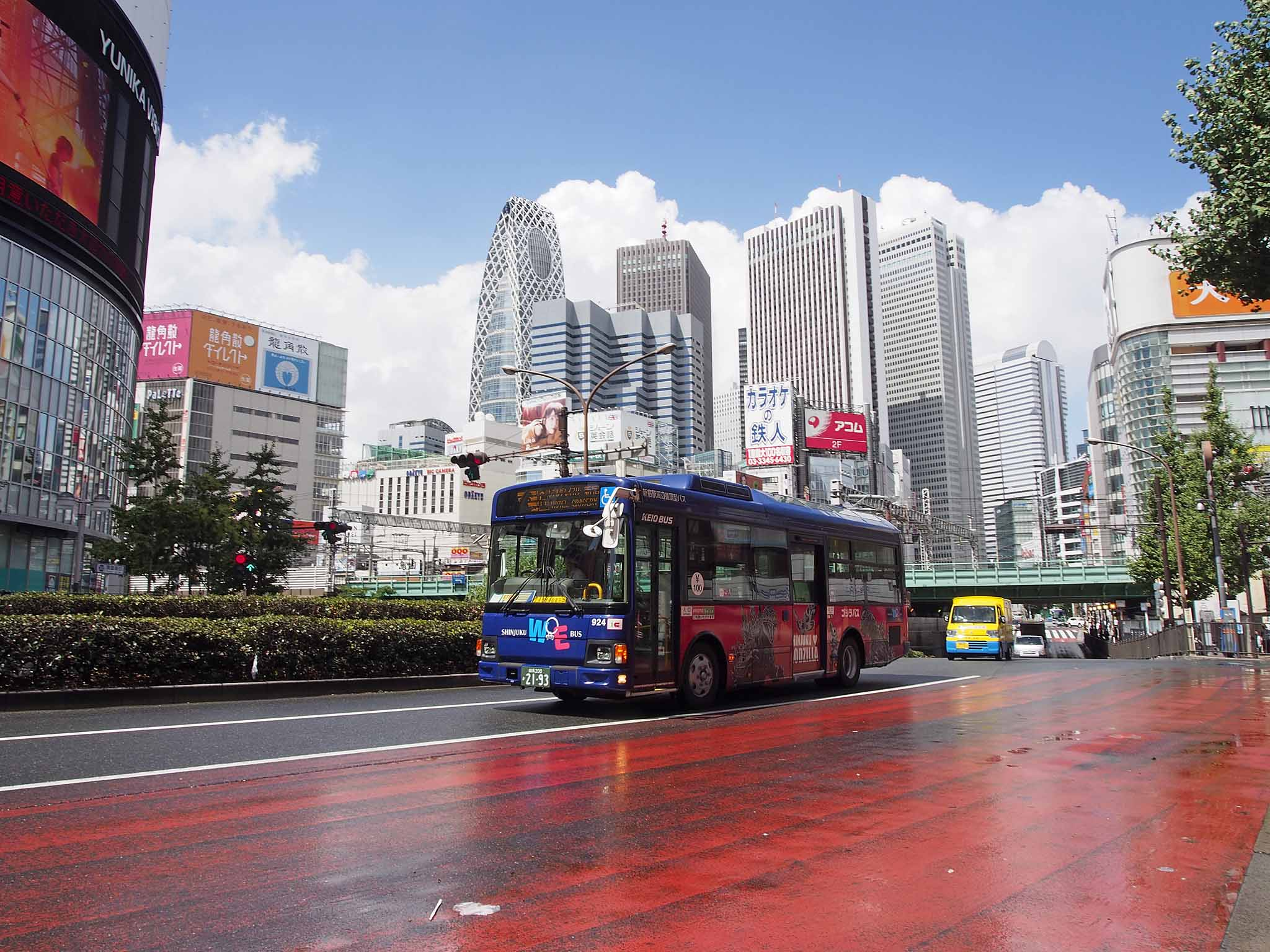 Fleet of Shinjuku WE Bus, Shin Godzilla advertised for No. A20924, operated at Kabukicho Route since July 2016. Model: Hino Rainbow II KR234J2 Customize: Tokyo Special Coach License plate: TKN200 KA2193